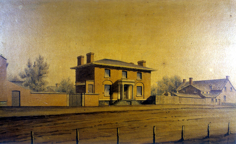 The offices of the Canada Company on the east side of Frederick Street between King and Front. The Canada Company purchased a million hectares of land from the Crown to resell or lease to settlers beginning in the 1820s. Toronto, Canada.